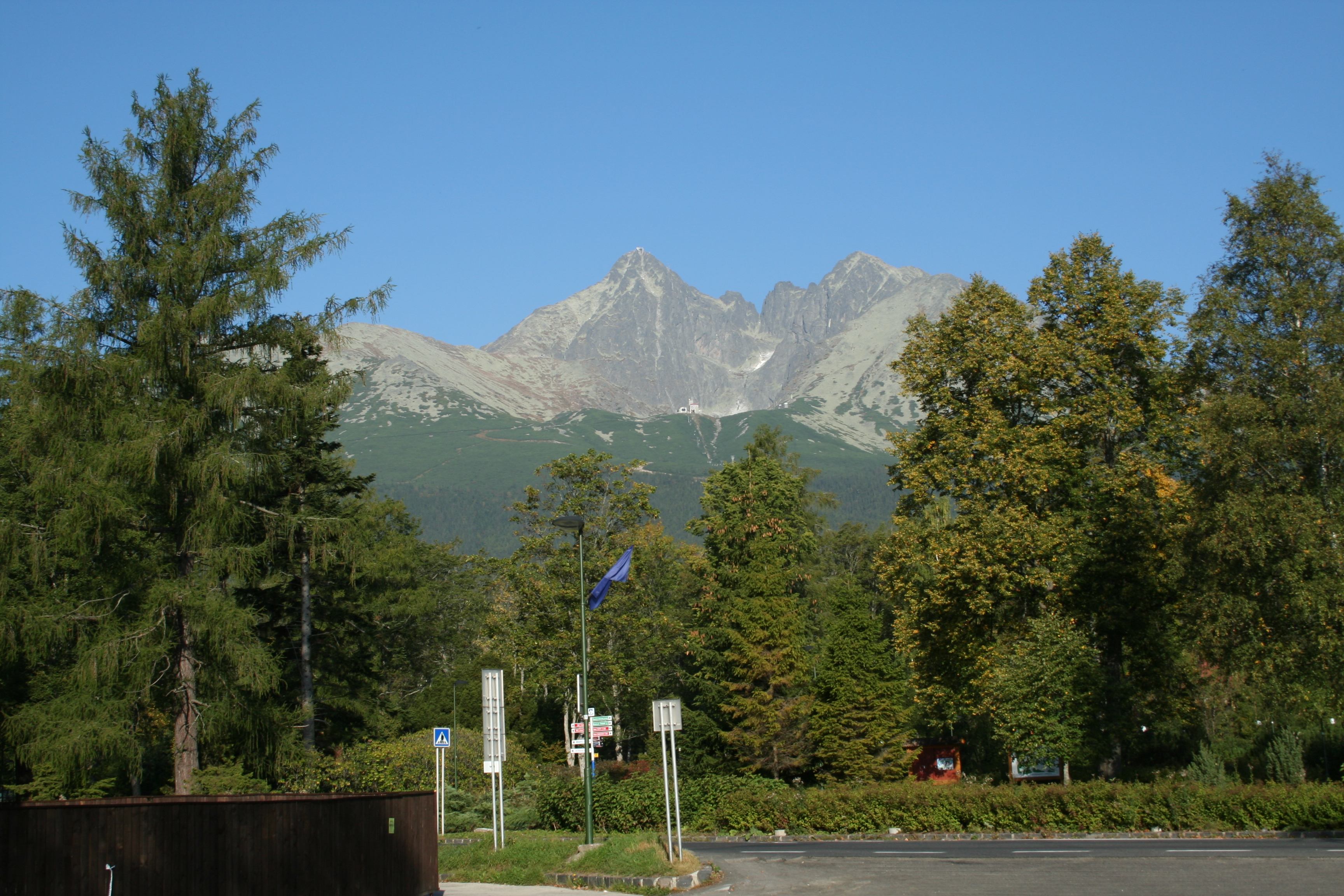 Tatranská Lomnica: view from the bus station towards the Lomnica peak (Lomnický_štít); both stations of the cable railway are visible